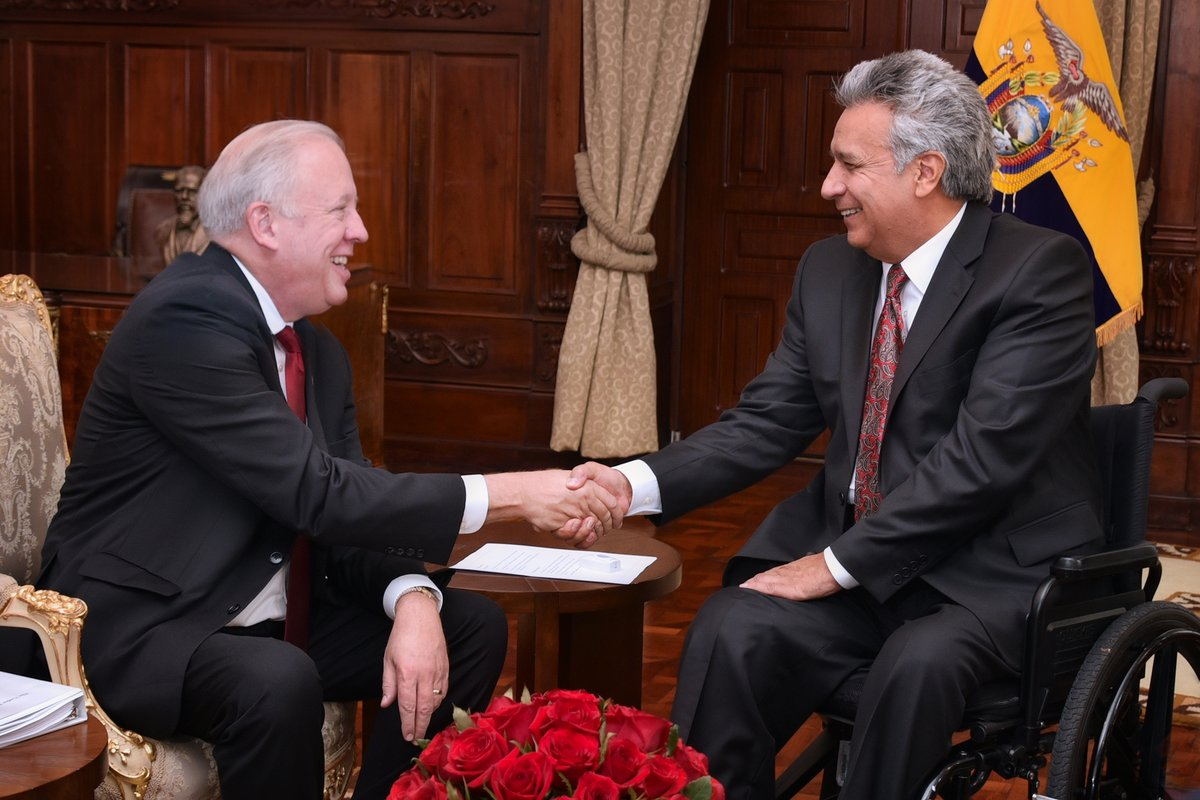 Under Secretary for Political Affairs Thomas Shannon meets with Ecuadorian President Lenín Moreno in Quito, Ecuador on February 27, 2018. [State Department photo/ Public Domain]